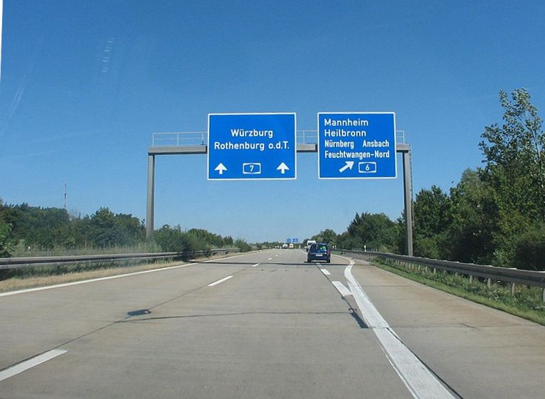 The highway interchange Feuchtwangen/Crailsheim from the Bundesautobahn 7 (direction Würzburg)